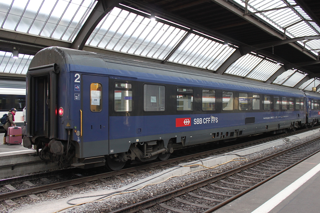 SBB CFF FFS couchette car Bcm 61 85 50-90 104-4 at Zürich HB in the consist of EN 314 "Luna" Roma Termini — Zürich HB.